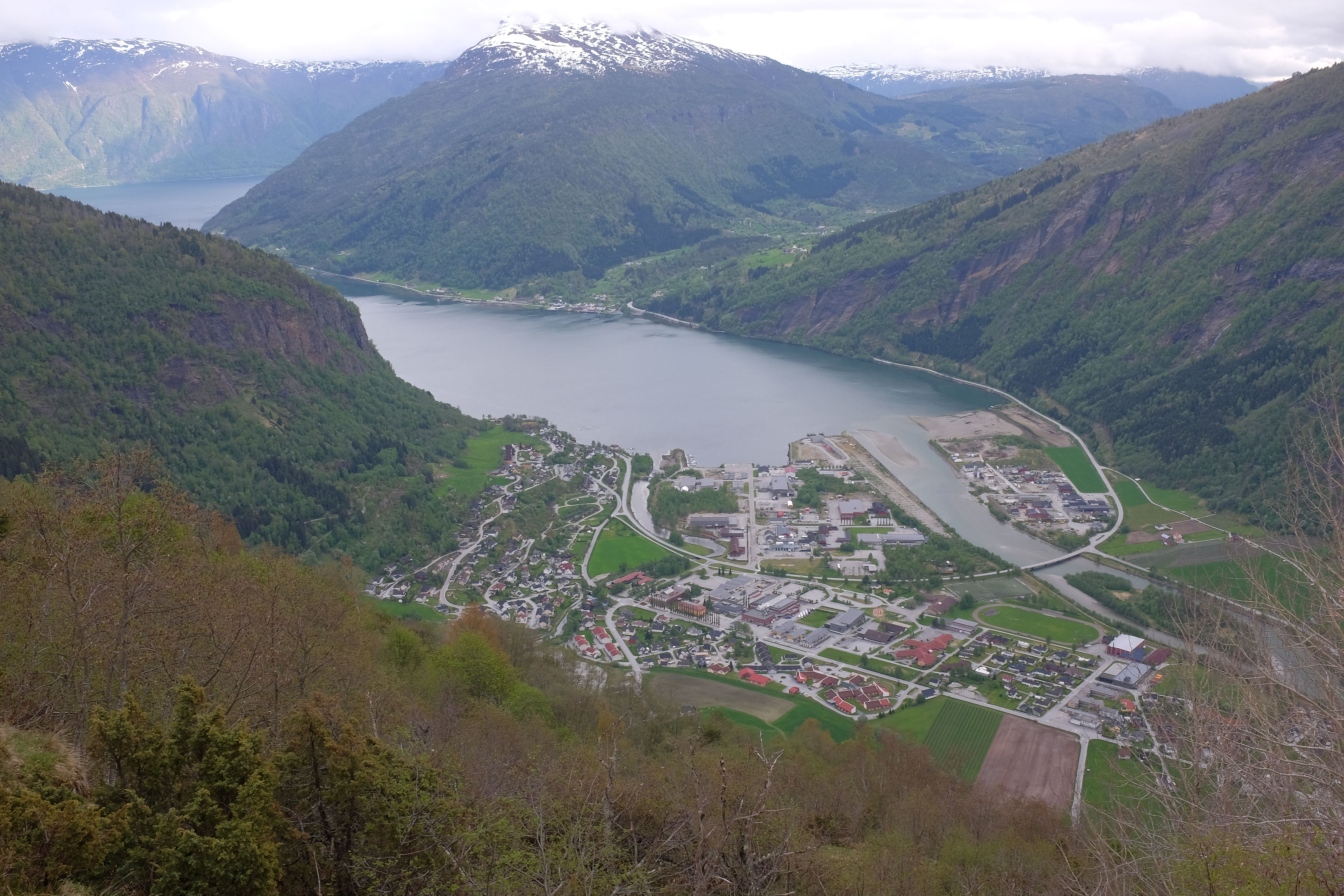 Gaupne is the administration site of Luster municipality, in Sogn og Fjordane, Norway.